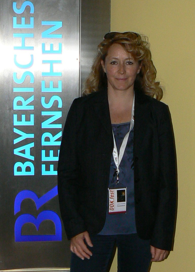 Director Gabriele Neudecker at Dok.Fest 2012